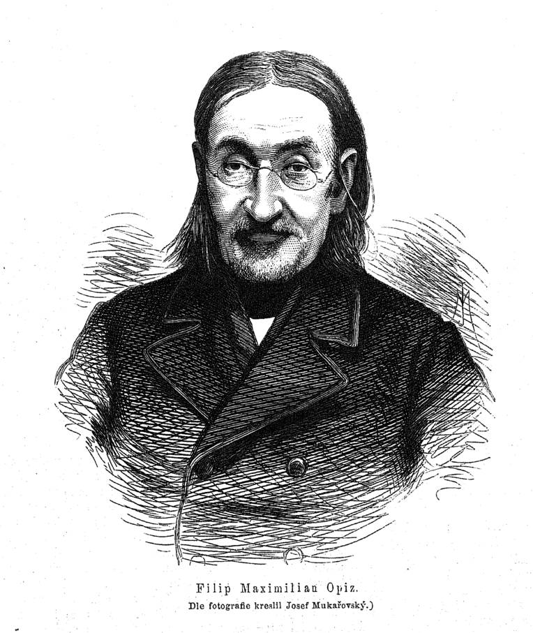 Portrait of Filip Maxmilián Opiz (1787-1858; in German written as Philipp Maximilian Opiz ), a Czech-German forester and botanist.